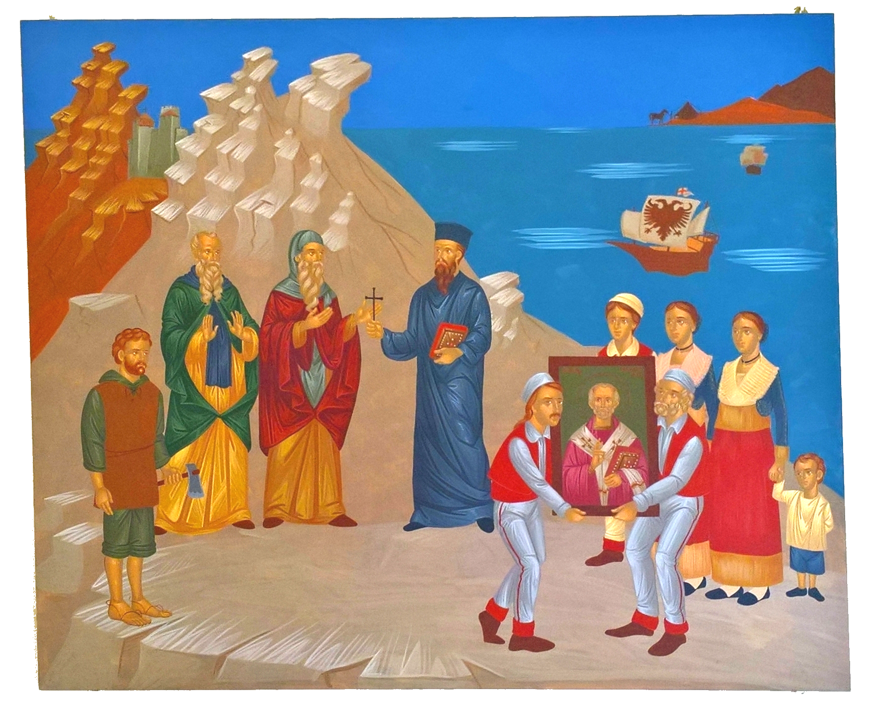 The arrival of Arbëreshë in Italy with their papas and their icon. Luigi Manes artist.